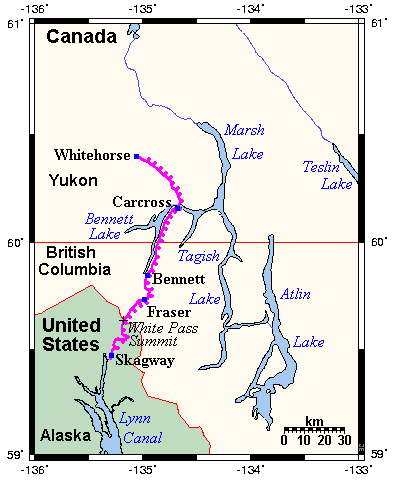 Map showing the White Pass and Yukon Route railway's route through Alaska, British Columbia, and the Yukon. The Skagway terminous and White Pass are shown on the map. This map's source is here, with the (original) uploader's modifications, and the GMT homepage says that the tools are released under the GNU General Public License.